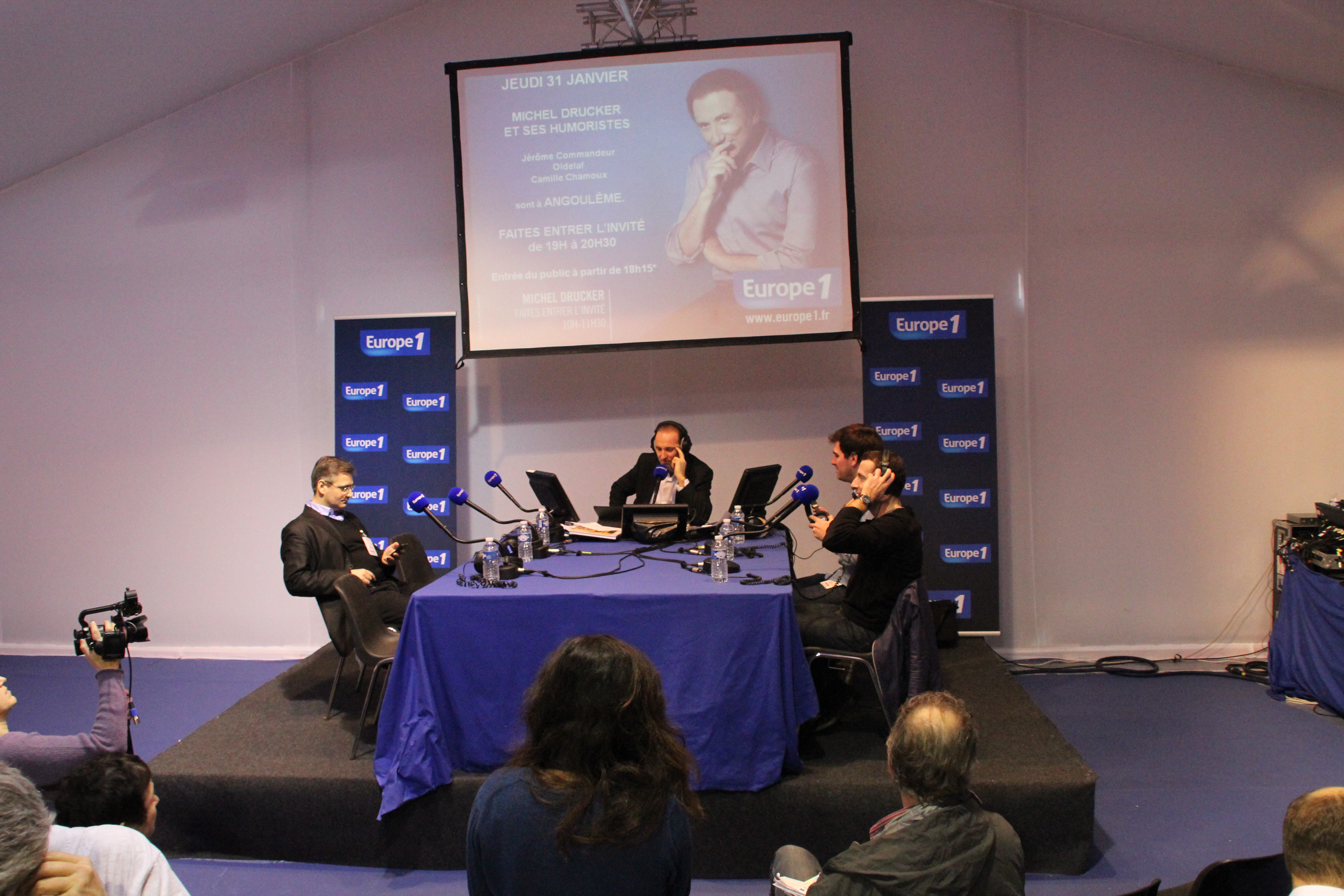 Angoulême International Comics Festival 2013.